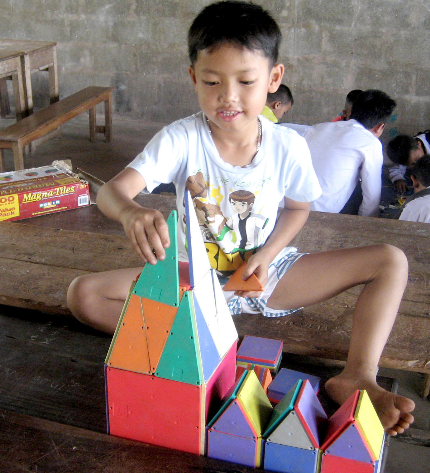 Children in less-developed countries rarely get to play with creative building toys that are common in wealthier countries. This boy enjoys his first opportunity, a building set called "Magna-Tiles" which easily attach by means of magnets inside the colored plates. The photograph was taken at an activity day organized by Big Brother Mouse, a literacy project in Laos. Older children played with Legos, Tinkertoys, and Lincoln Logs, all purchased and brought to Laos by supporters. The day also included reading aloud sessions, simple science experiments, and number games.